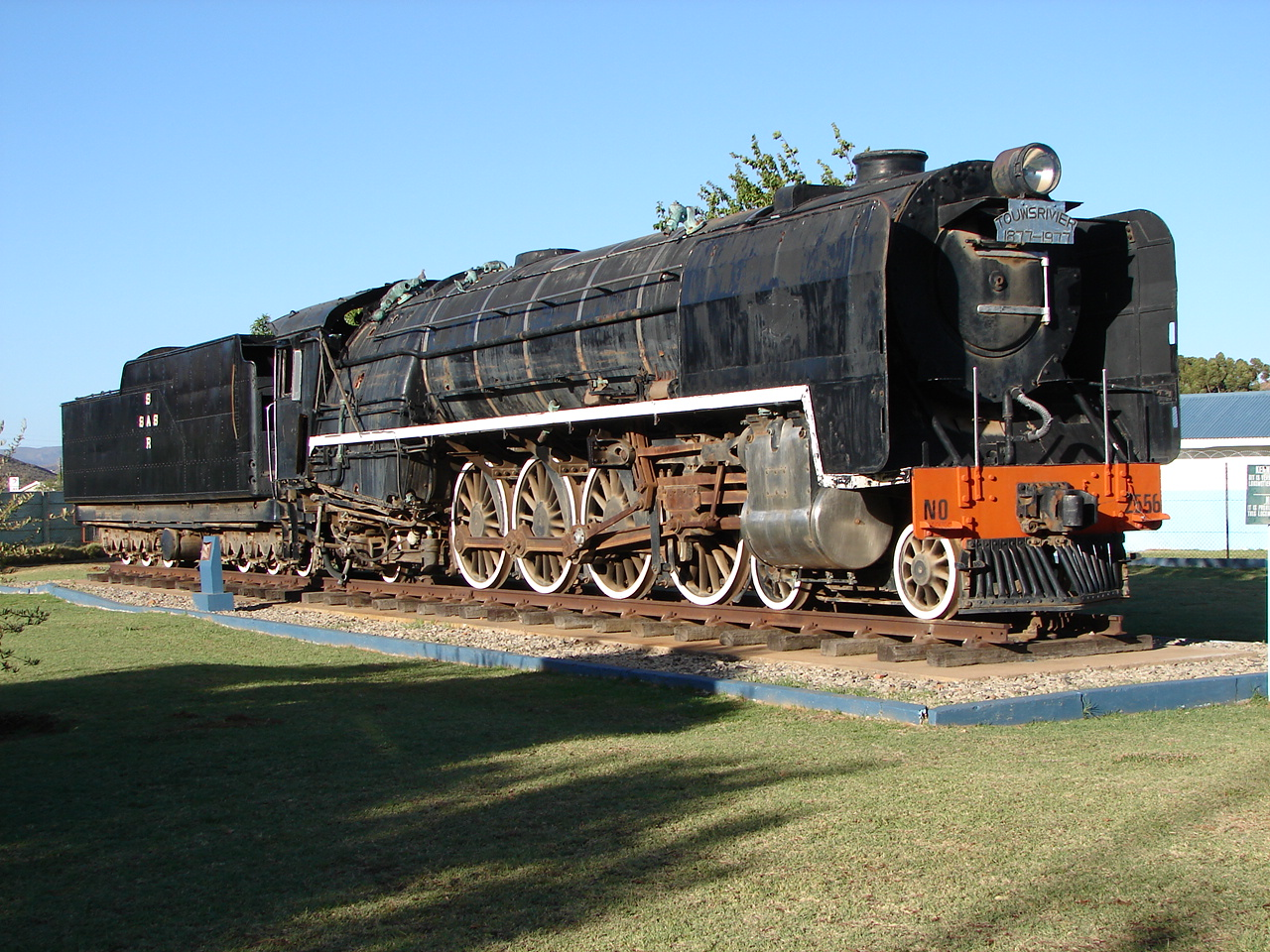 SAR Class 23 2556 (4-8-2) Builder's Number: Berliner 10742 Location: Touws River, Western Cape